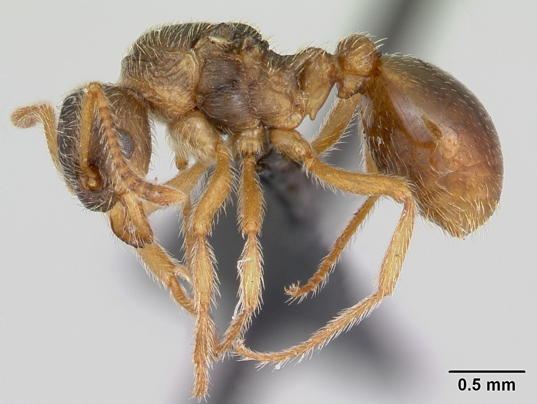 Profile view of ant Myrmica karavajevi specimen casent0172766.